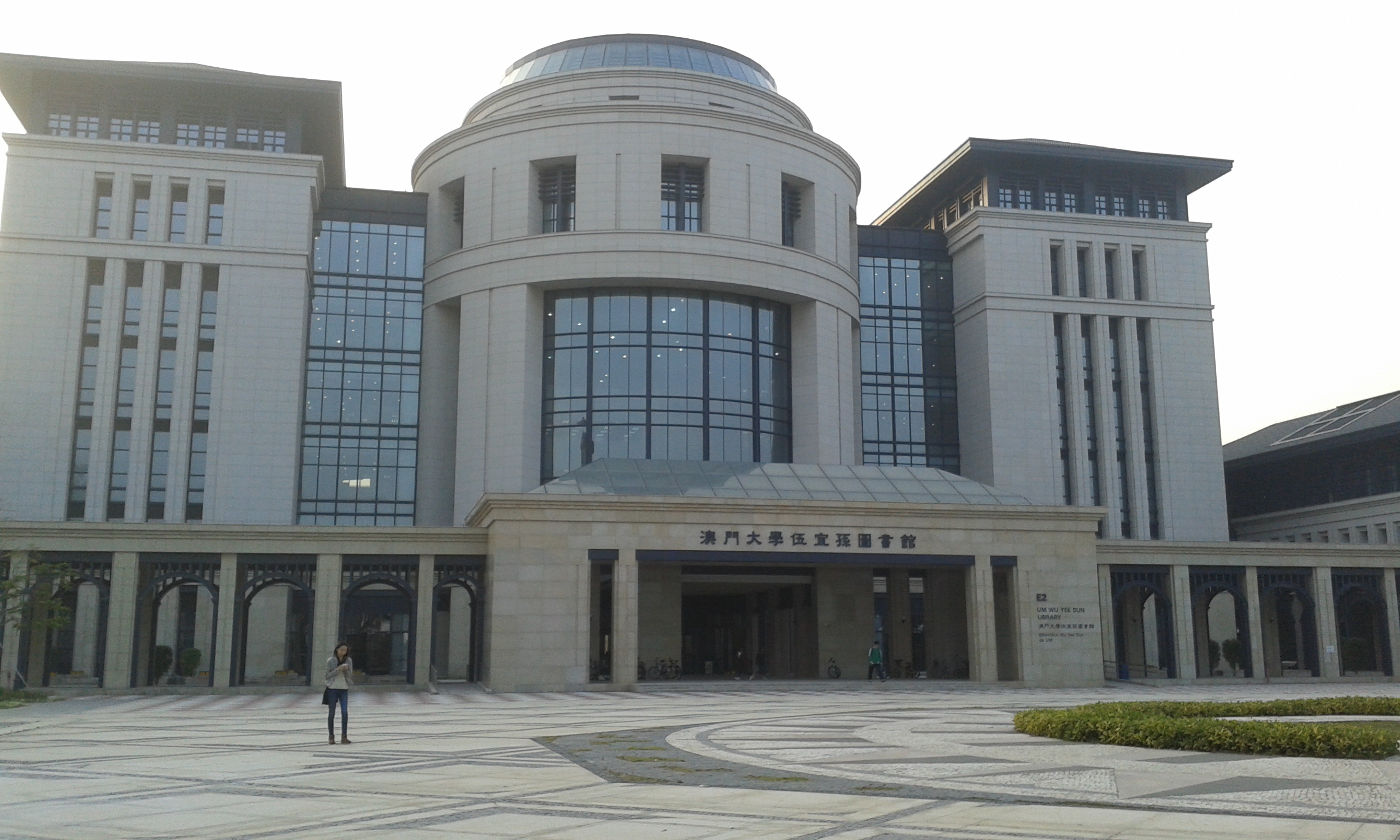 UM Wu Yee Sun Library